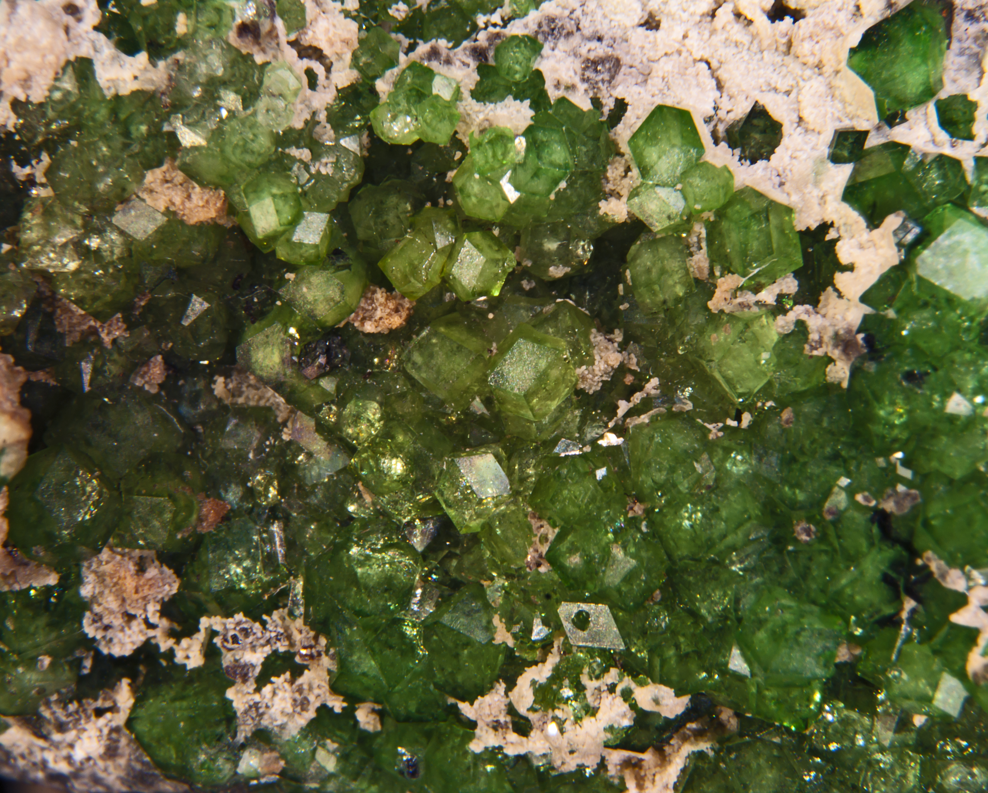 Andradite (Var.: Demantoid)- Locality: Jeffrey mine (Jeffrey quarry; Johns-Manville mine), Asbestos, Les Sources RCM, Estrie, Québec, Canada - Size of view : 2 cm.